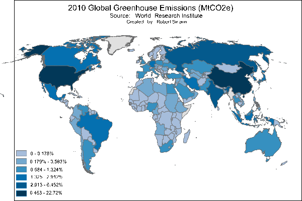 Country GHG Emissions (MtCO2e), Percentage of World Total